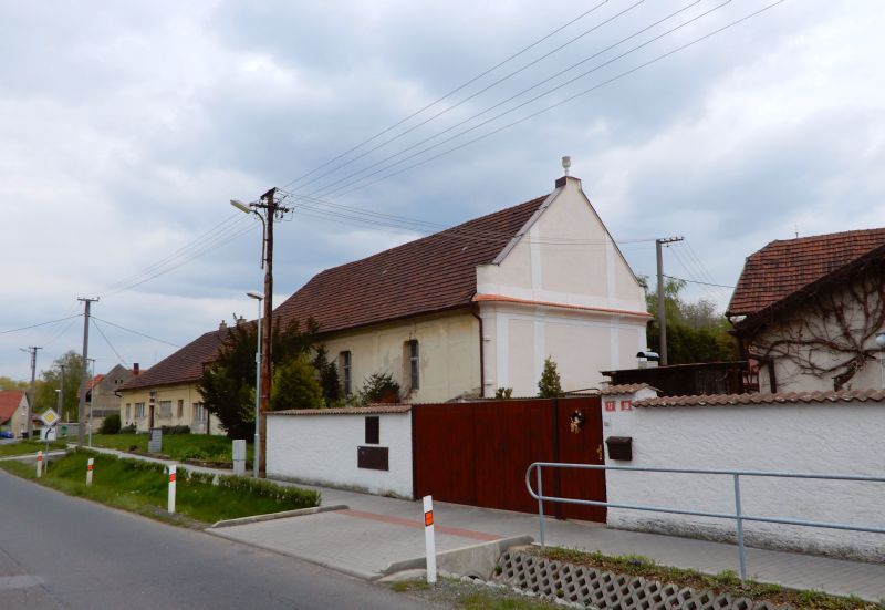 Ledčice, former evangelical church, 1794